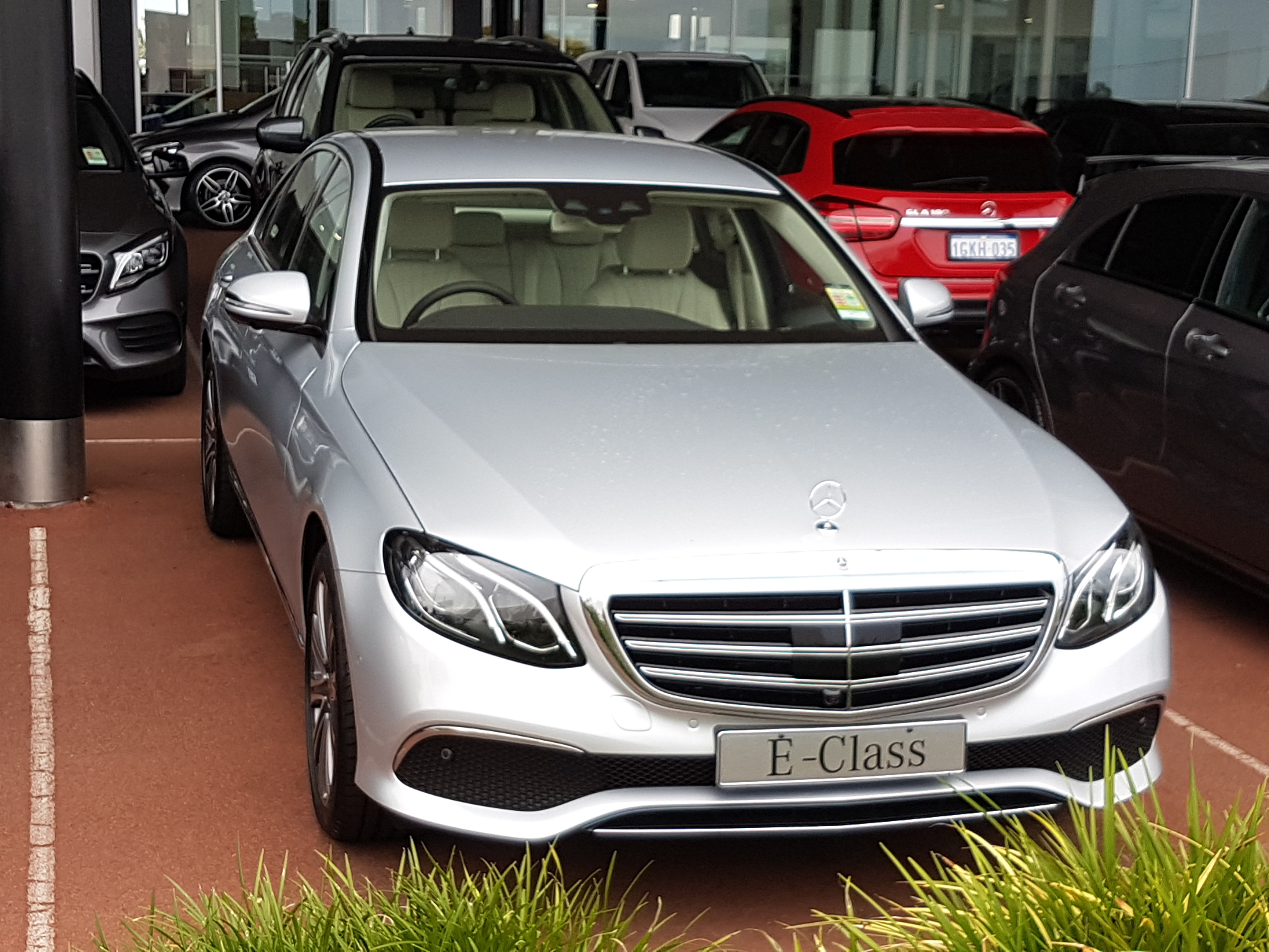 Mercedes-Benz W213 E-Class